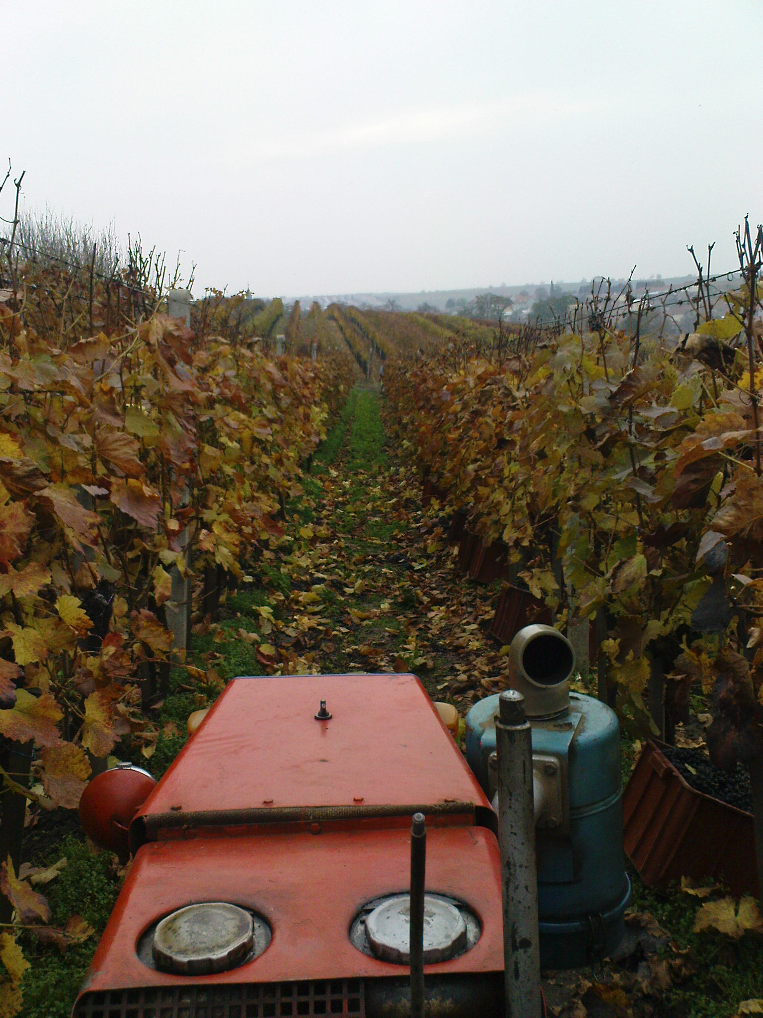 vineyard grapery vineyards winery vintage vendabe vendage cejkovice čejkovice cejkovice čejkovice